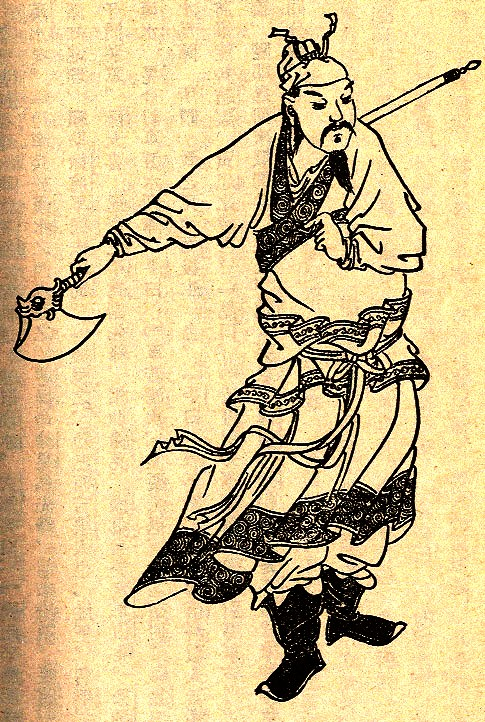 Portrait of Xu Huang